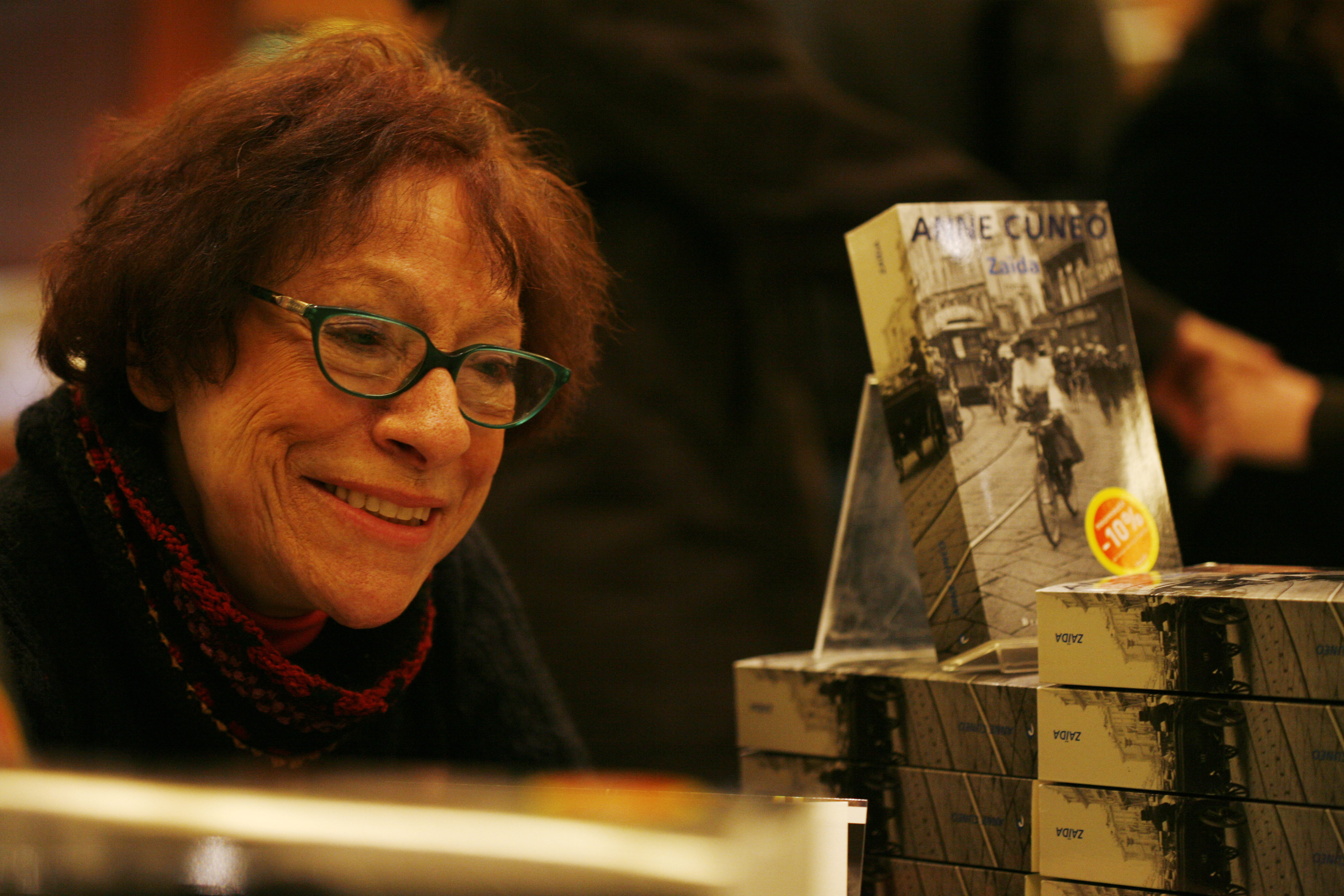 Anne Cuneo